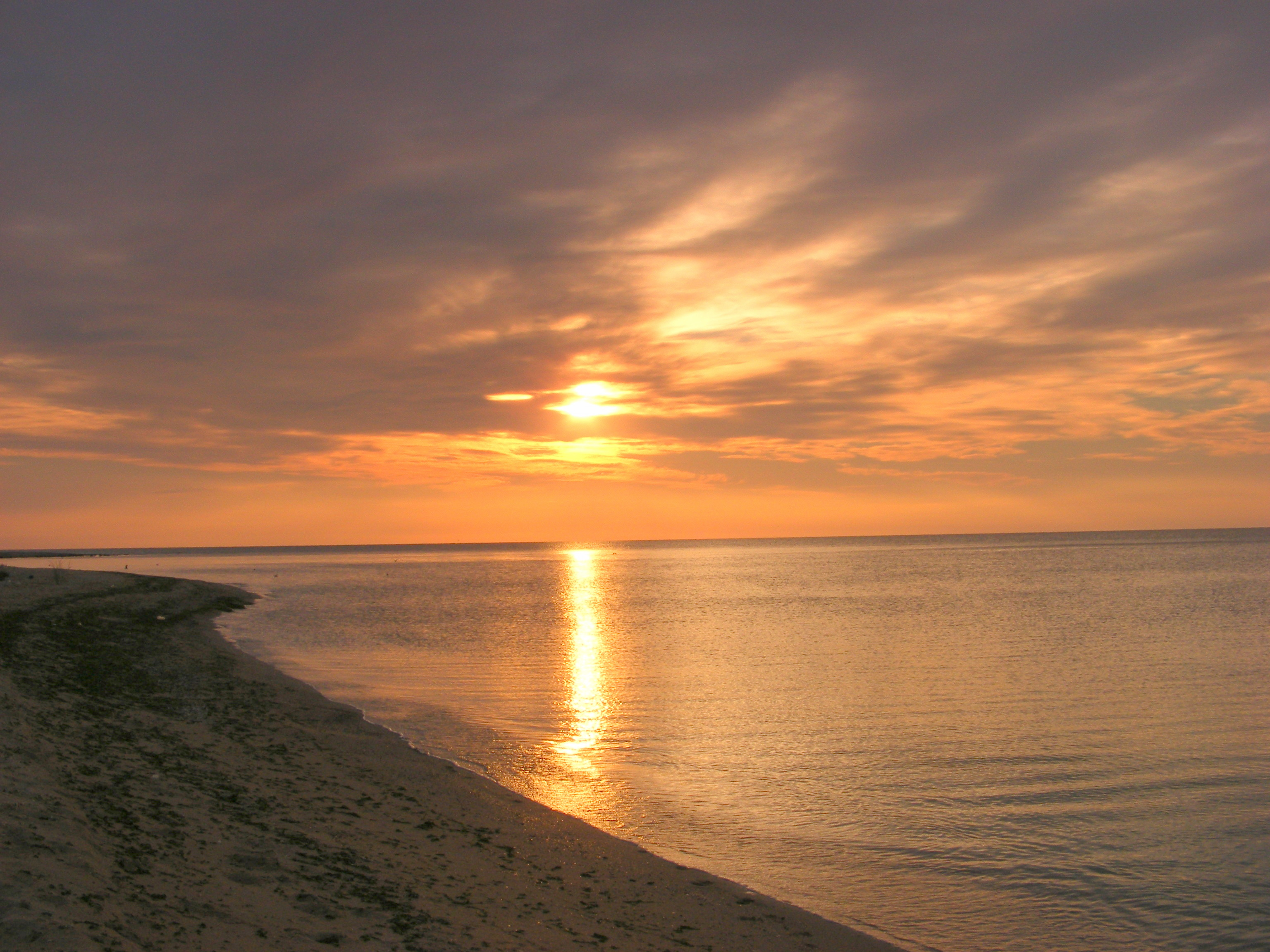 Sunrise - camping space.